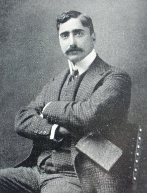 Robert Goldschmidt in 1909, picture from the magazine L'expansion belge from August 1909